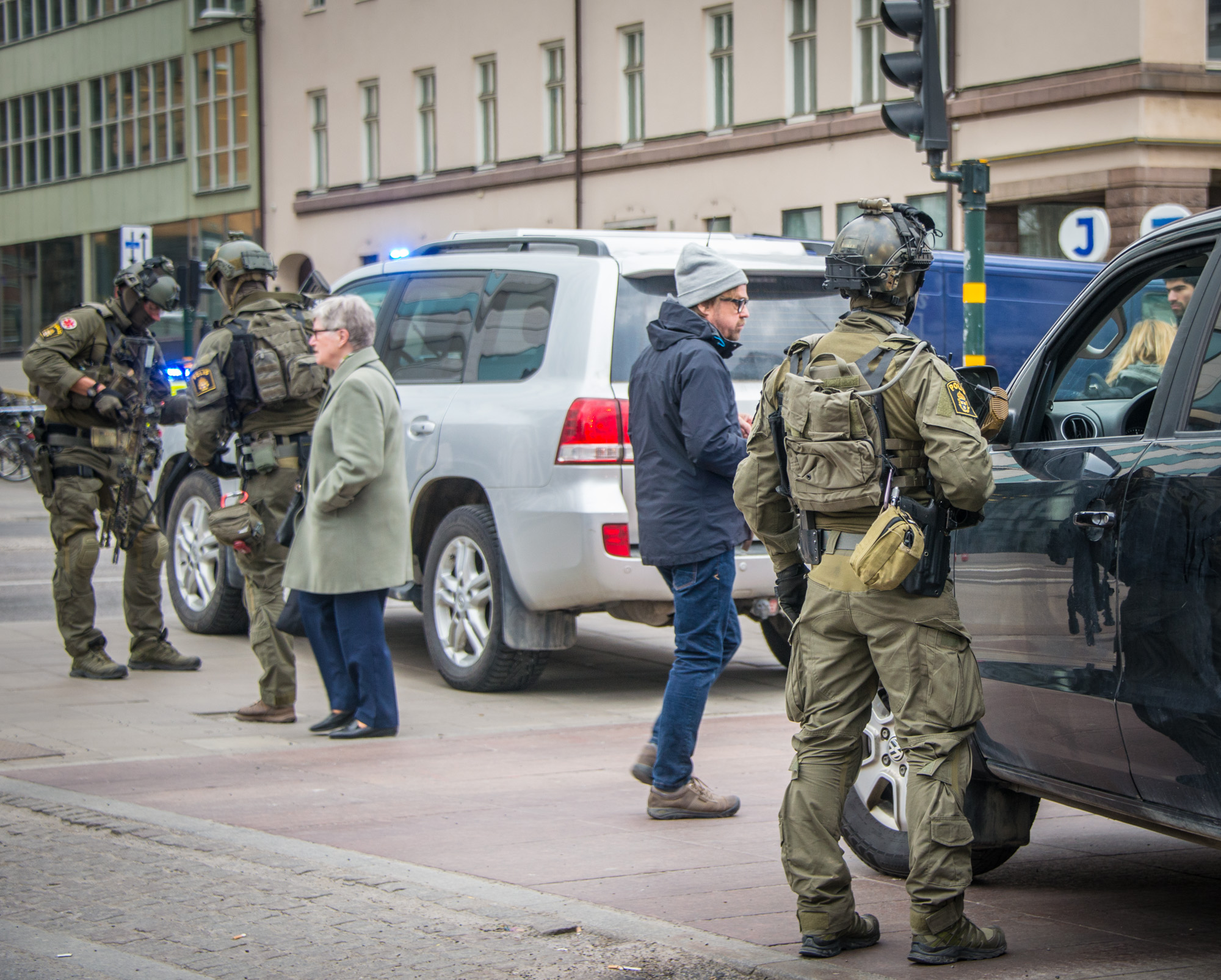 The terrorist attack in Stockholm April 7, 2017.